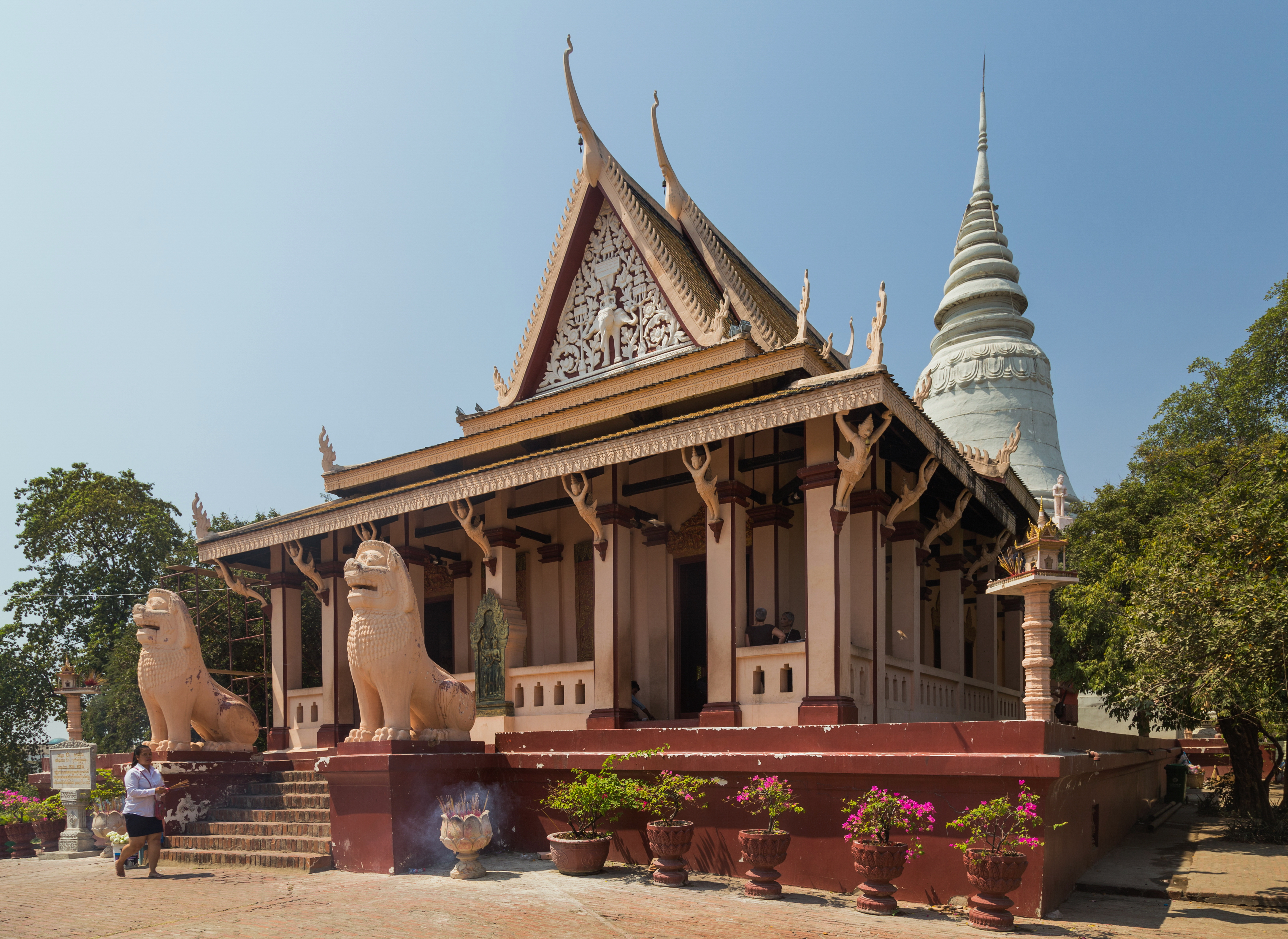 Main temple. Wat Phnom. Phnom Penh, Cambodia.